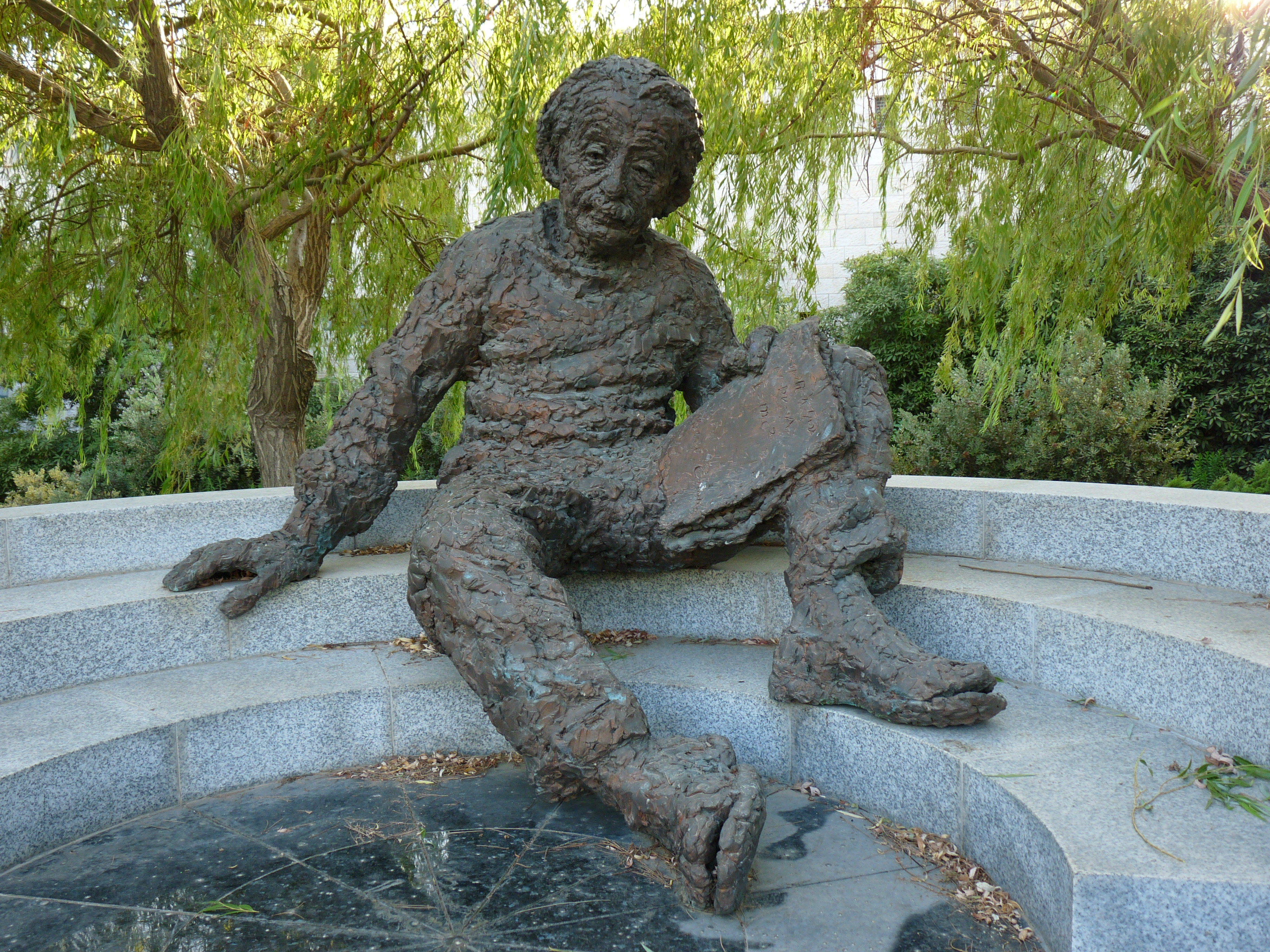 Robert Berks (US-american, born 1922): Albert Einstein Millennial Monument, Jerusalem, Israel Academy Of Sciences And Humanities, Albert Einstein Sciences Garden. Replica of the 1979 monument located at the US National Academy of Sciences.